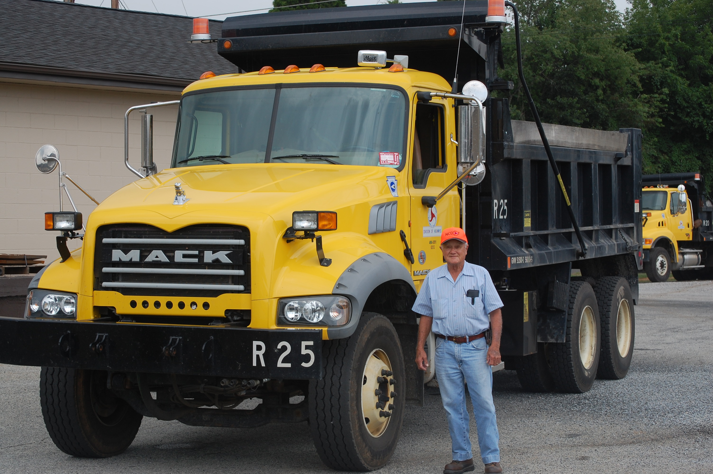 Elliot stands proudly by his work truck: Elliot drives one of the biggest dump trucks that the Rowan County Maintenance Yard has. He says driving tractor-trailers decades ago helps him drive his work truck now. Hubert Elliot is the oldest employee of the Division of Highways with NCDOT. He's worked for 13 years as a transportation worker, hauling dirt, fixing potholes and more.